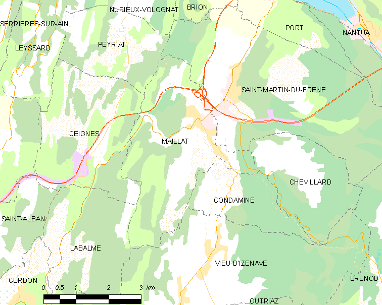 Map of French commune: Maillat Map commune FR insee code 01228.png